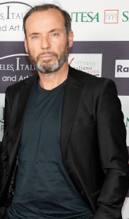 Paolo Consorti in 2020 at Chinese Theatre, Los Angeles